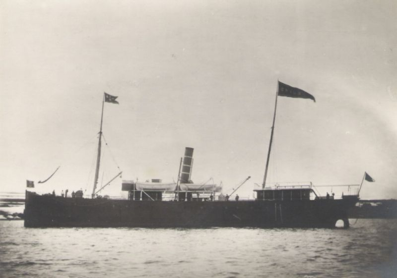 Norwegian coastal ship DS Orion, built 1874, in Vadsø.